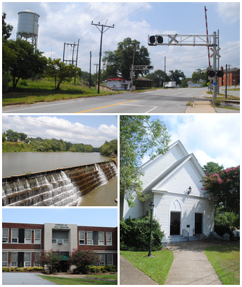 Photos I took around Pelzer, SC